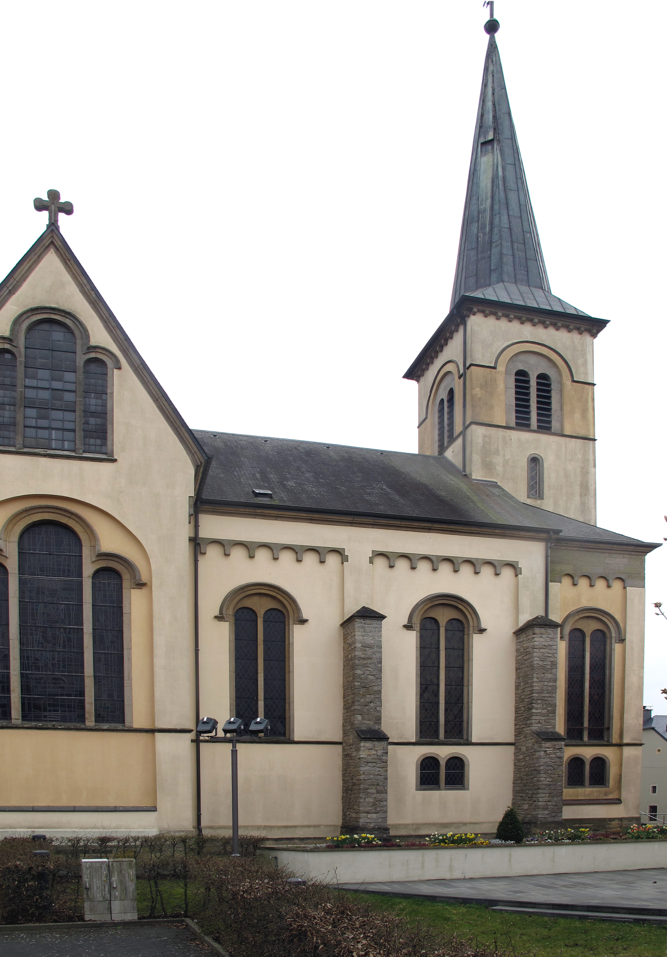 church in Kehlen, Luxembourg